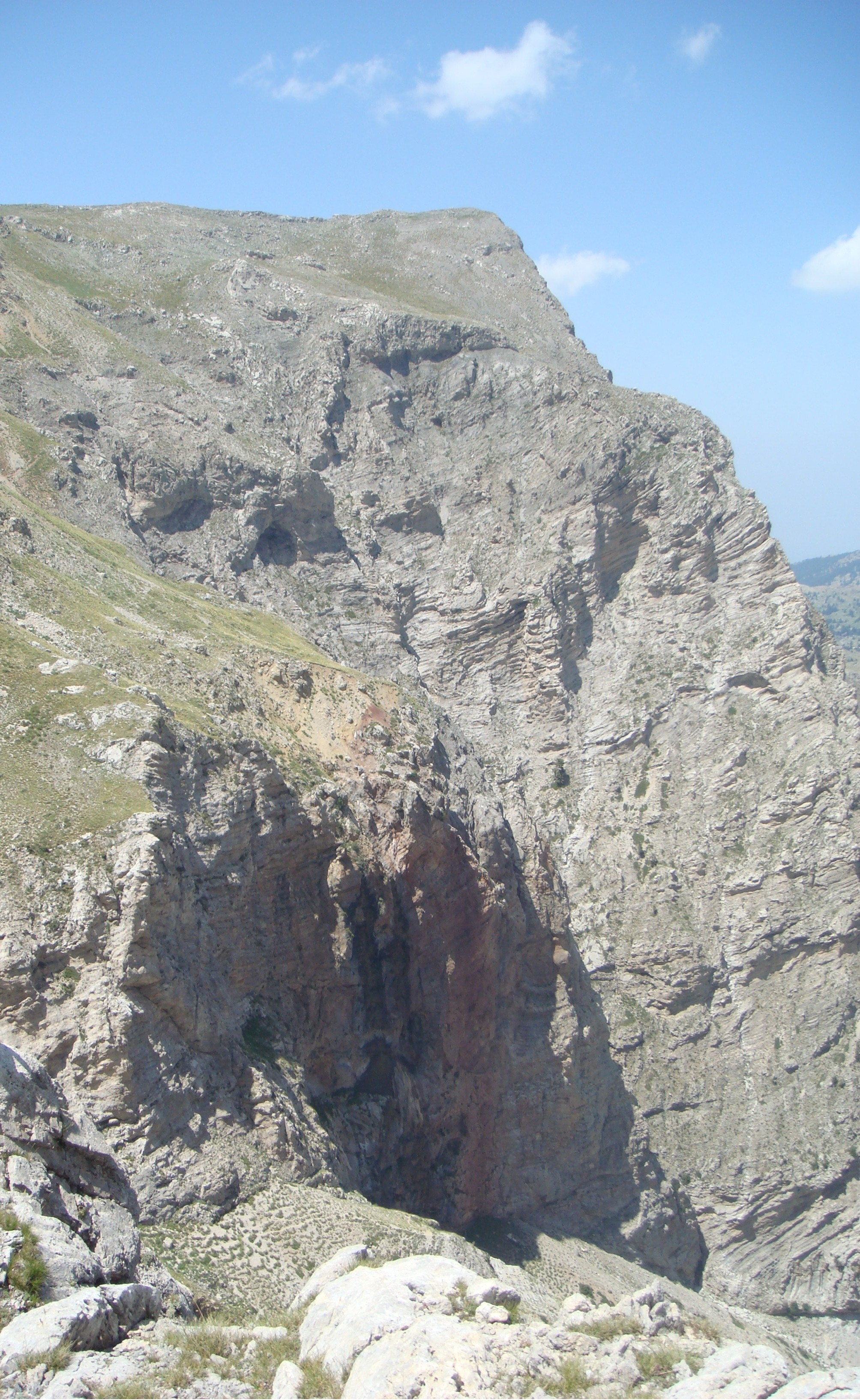 View of Neraidorachi and the Styx Waterfall.